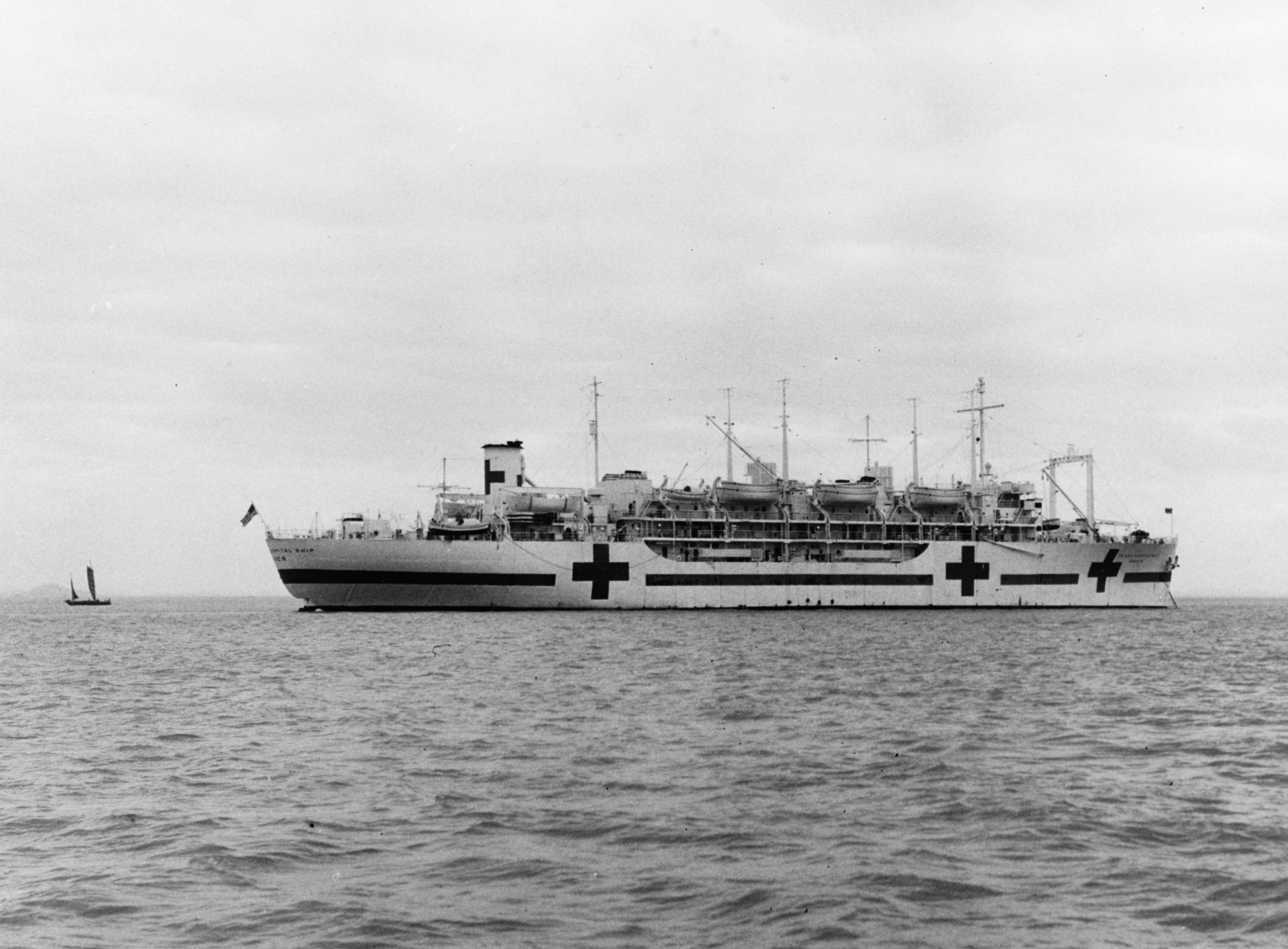 The U.S. Navy hospital ship USS Haven (AH-12) at anchor at Inchon, Korea, on 15 December 1950.